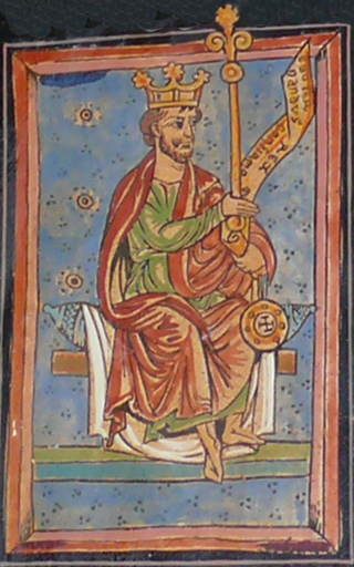 Ferdinand I of León